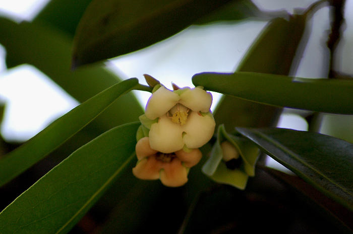 Male flowers of Diospyros malabarica from Ebenaceae. Rarely seen in cultivation.